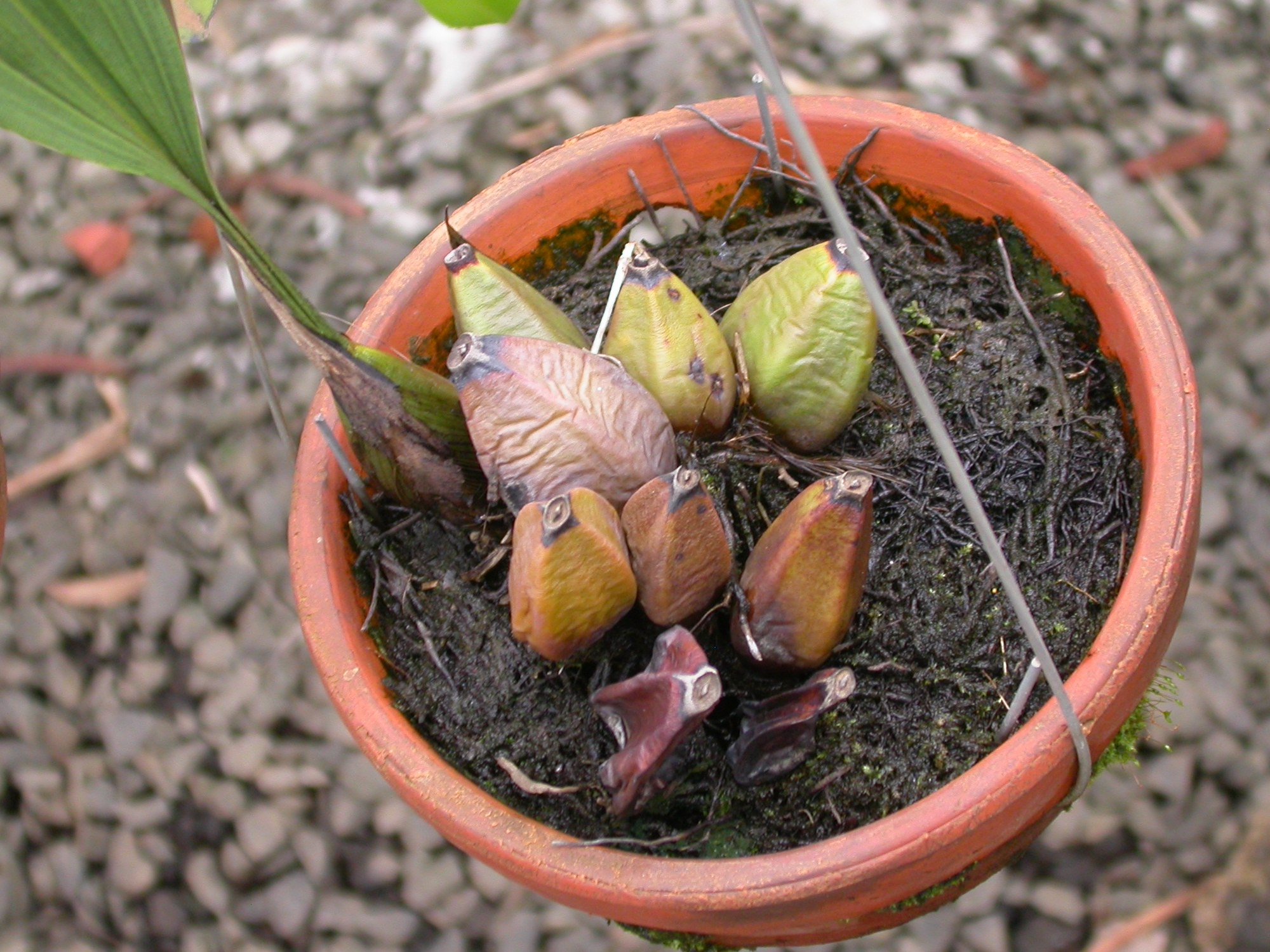 Bifrenaria vitellina plant